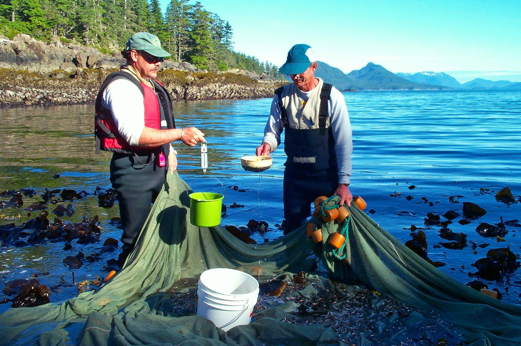 Sampling beach seine catch. Alaska, Southeast.